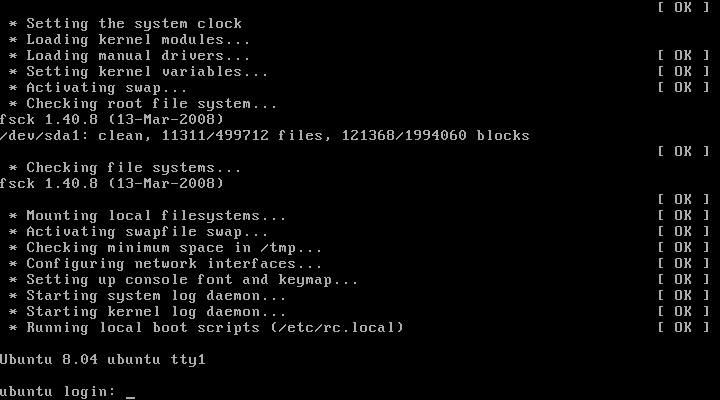 Screenshot of ubuntu JeOS 8.04 (RC).